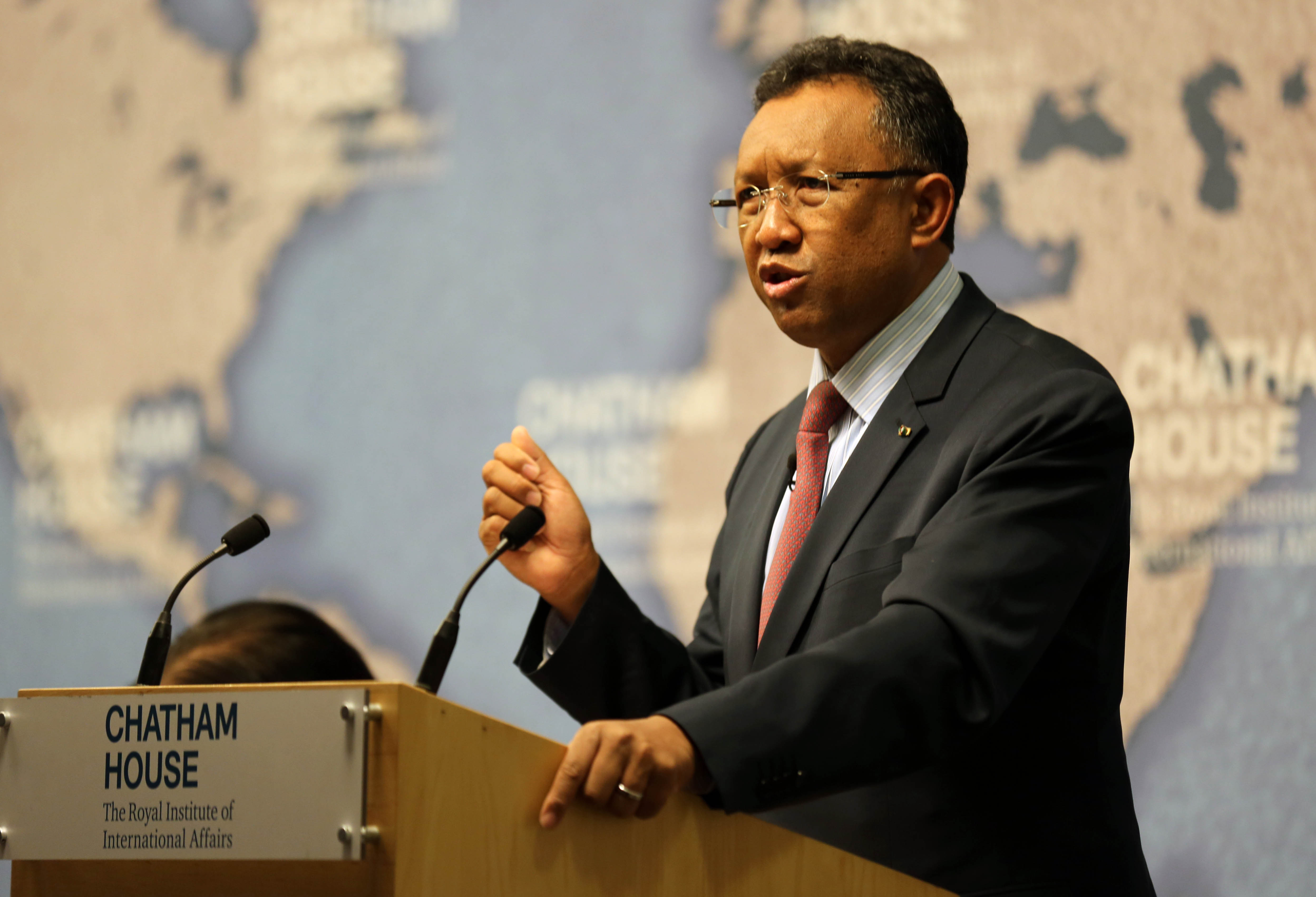 Moving Madagascar Forward: Priorities for Sustainable Development and International Engagement, 18 November 2015, cht.hm/1I0RrZt